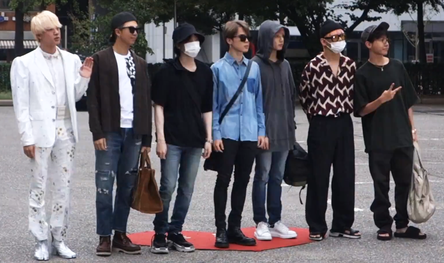 BTS attending a recording for KBS' Music Bank on August 31, 2018